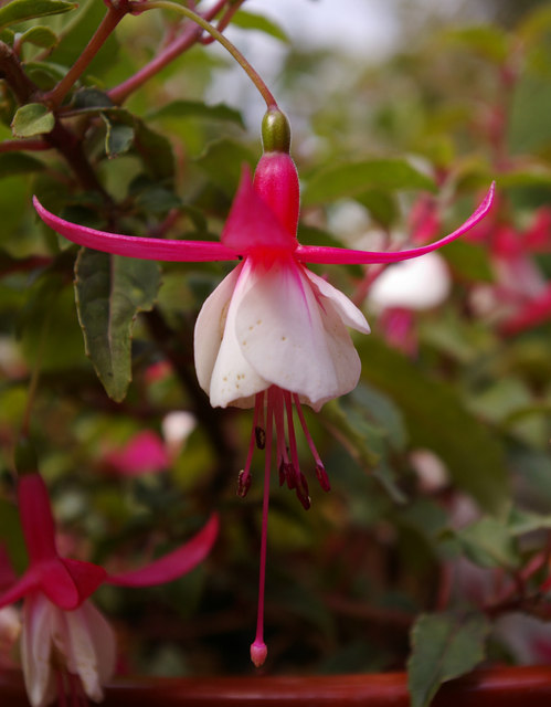 Hardy Fuchsia - Alice Hoffman A hardy fuchsia which produces masses of pink and white flowers, especially with all the wet weather we have had this year.